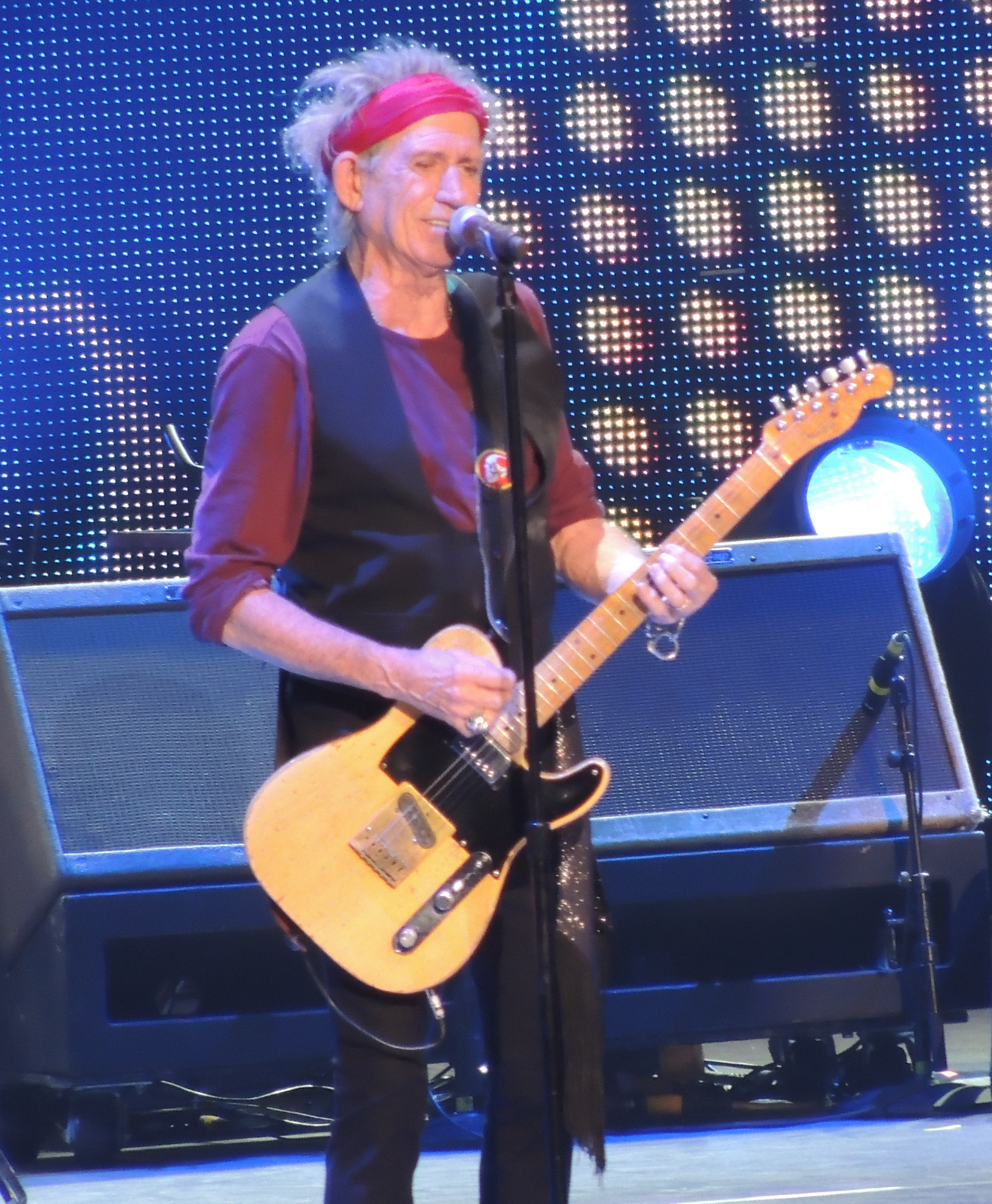 Keith Richards at the Prudential Center on 2012-12-13